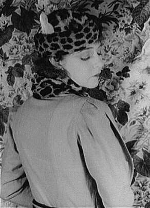 Actress Dorothy Gish Actress Dorothy Gish. November 7, 1932